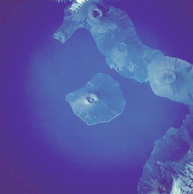 NASA view of Galapagos Islands, centered over Fernadina, Isabela at the top.